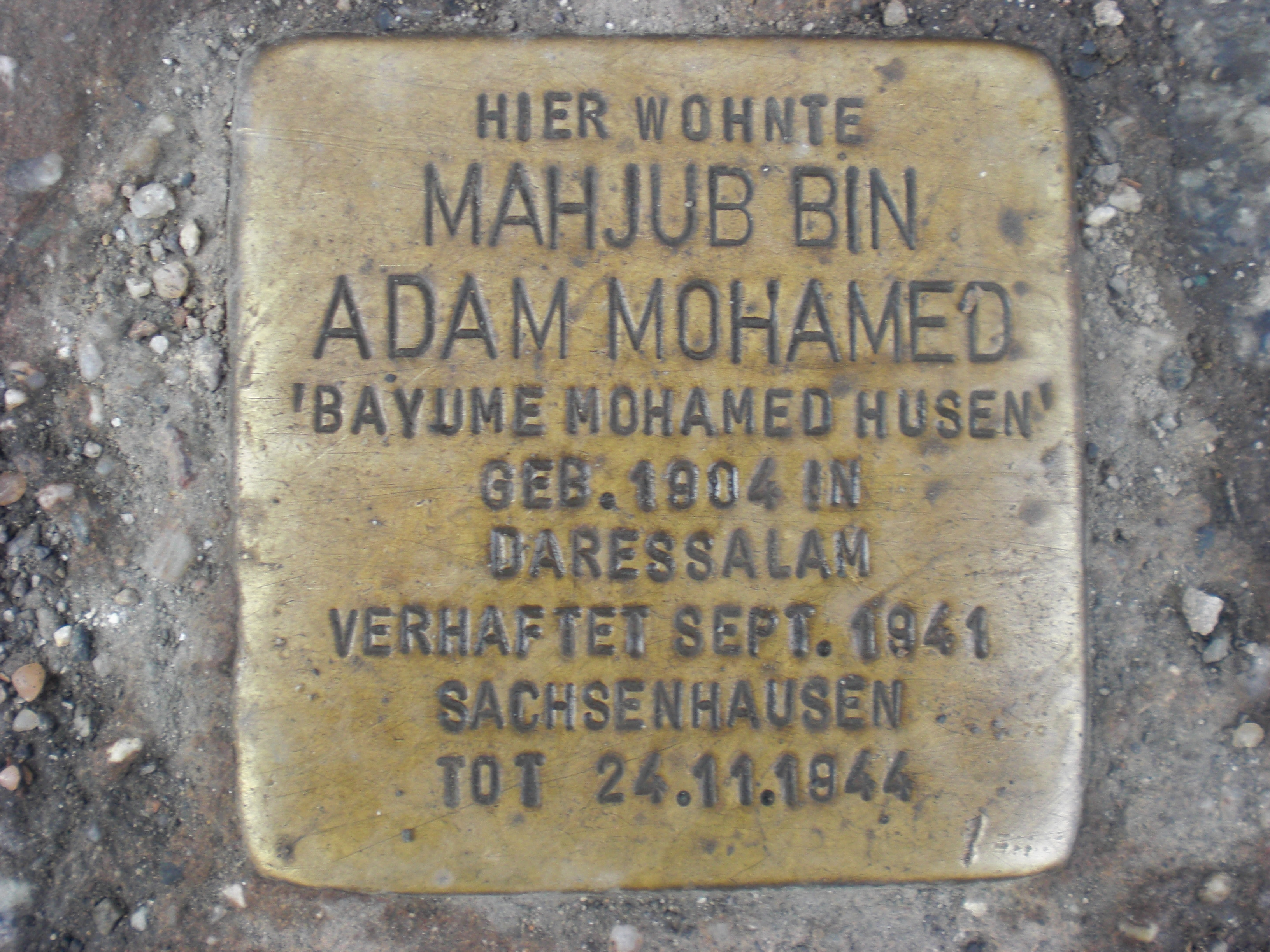 Stolperstein for Bayume Mohamed Husen. It reads, "Mahjub bin Adam Mohamed (Bayume Mohamed Husen) lived here. Born 1904 in Daressalam. Arrested Sept. 1941. Sachsenhausen, dead 11-24-1944. "